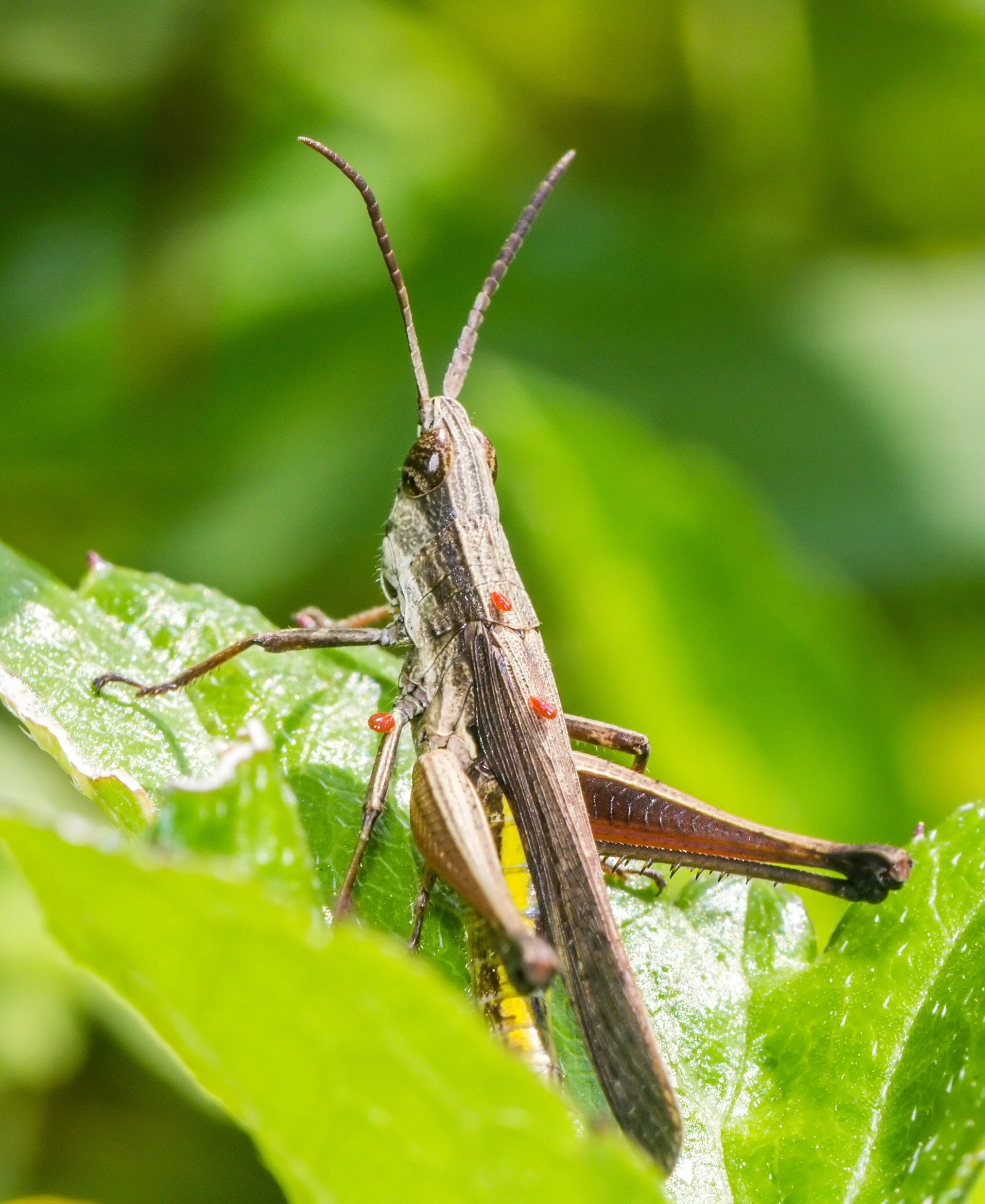 Unidentified Phlaeoba (perhaps Phlaeoba fumida), near Godean Street, Yogyakarta, 2015-03-17. This poor dear is infested by mites which are drinking its hemolymph.